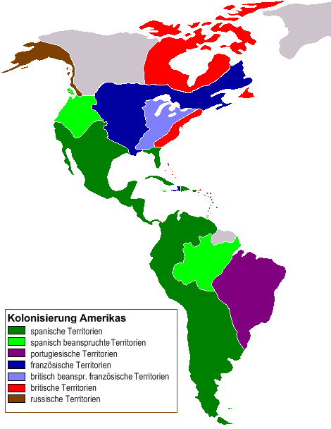 Map of territories of the Americas claimed by European great powers in 1750.